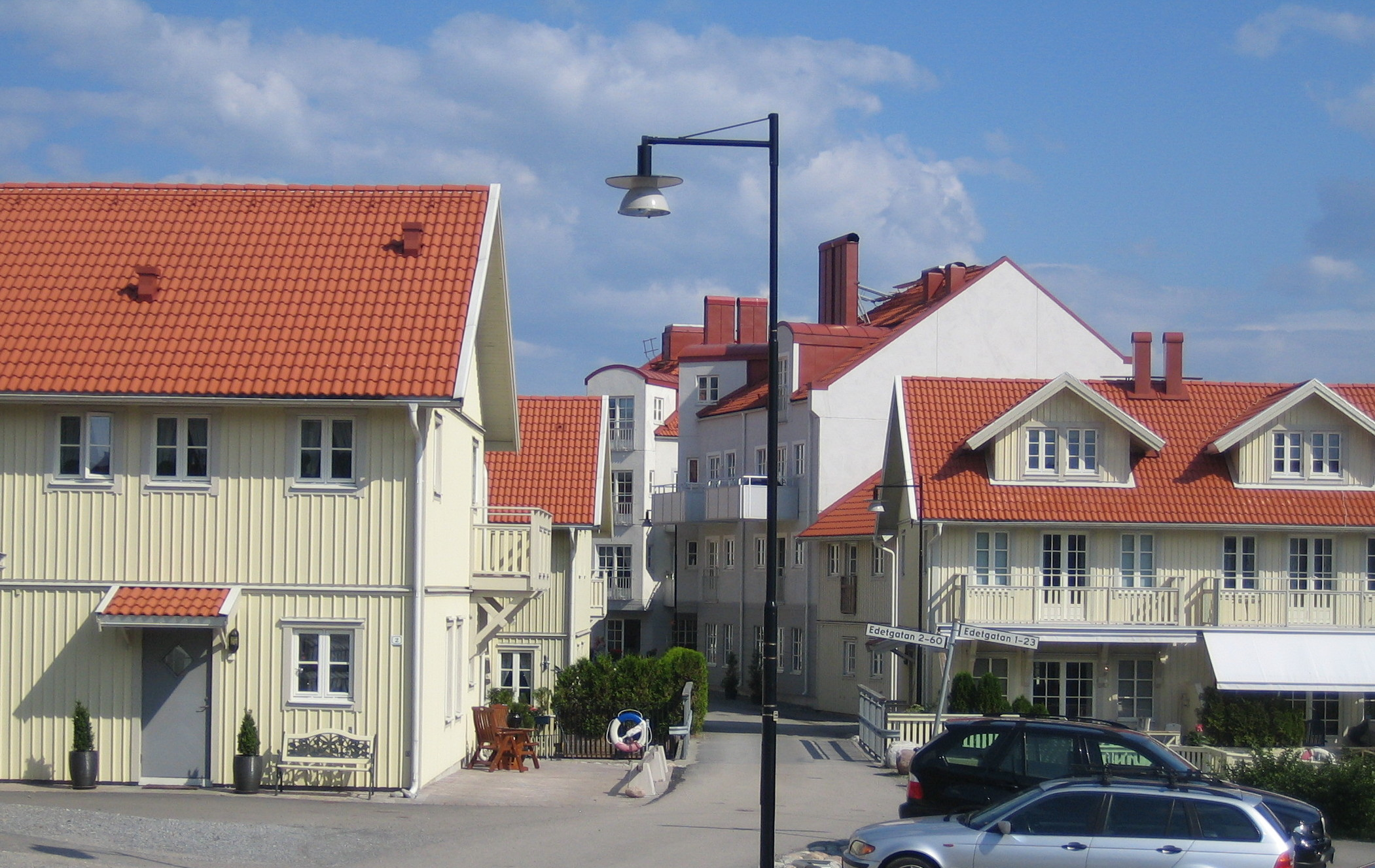 Picture of new buildings in traditional style at Kebal, Strömstad.